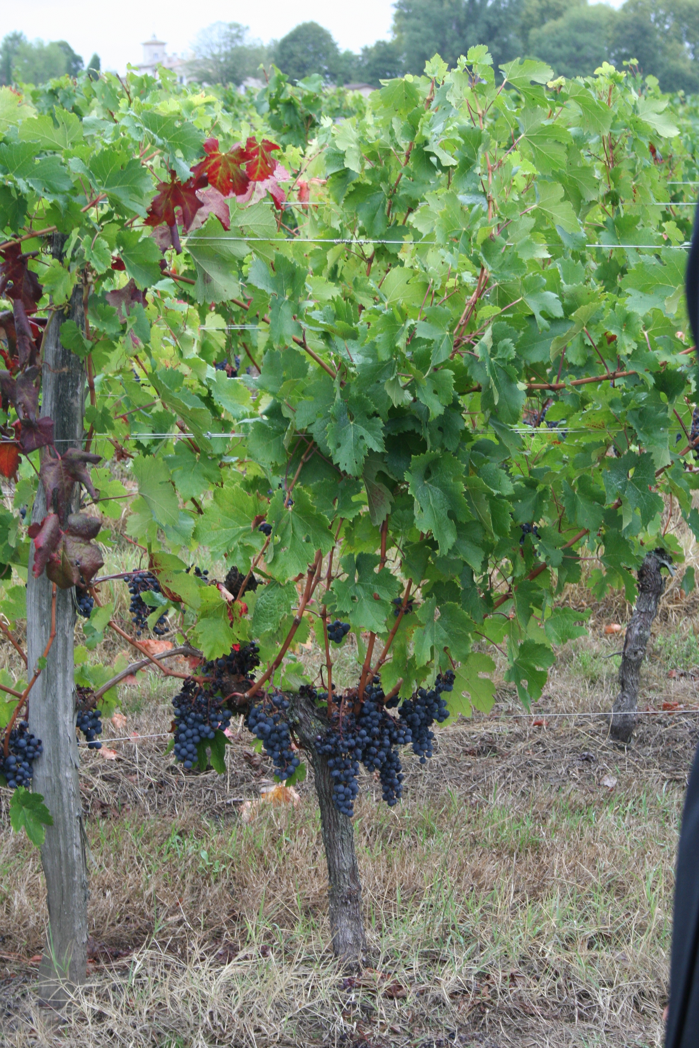 Merlot grapes in the French wine region of Pomerol in Bordeaux.